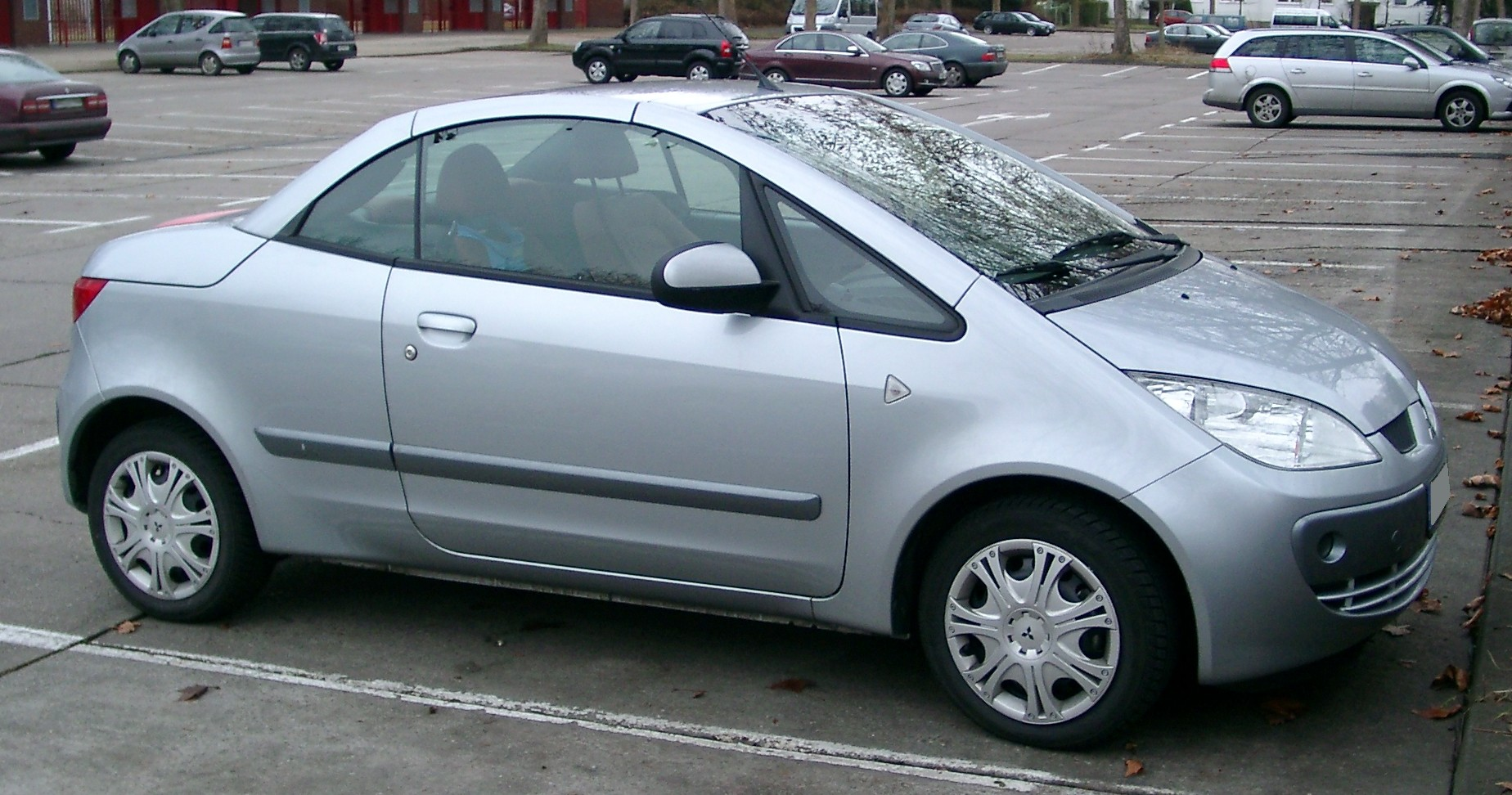 Mitsubishi Colt CZC